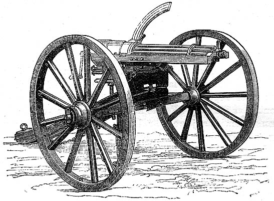 A Gatling gun from the 1860's